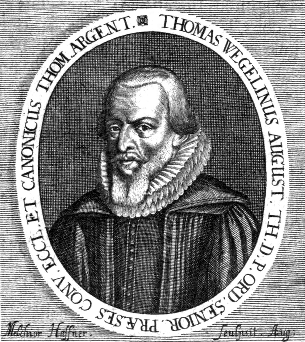 Thomas Wegelin (1577-1629) german protesant Theologian